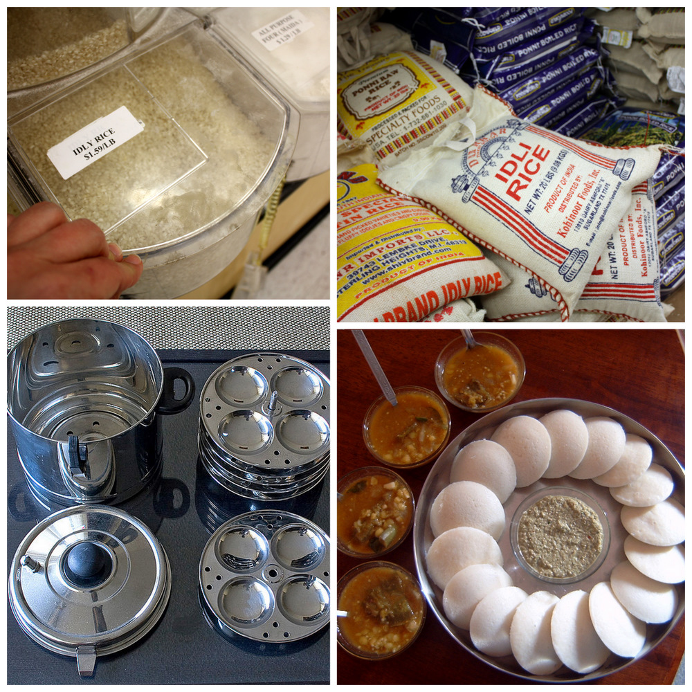 At the store, idli rice is sold in both sacks and bulk. The rice is used in a flour to make an eponymous cake. From Wikipedia: "Idli is a south Indian savory cake popular throughout India. The cakes are usually two to three inches in diameter and are made by steaming a batter consisting of fermented black lentils (de-husked) and rice. The fermentation process breaks down the starches so that they are more readily metabolized by the body. Most often eaten at breakfast or as a snack, idlis are usually served in pairs with chutney, sambar, or other accompaniments. Mixtures of crushed dry spices such as milagai podi are the preferred condiment for idlis eaten on the go."